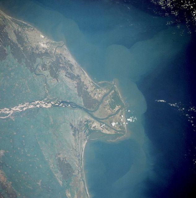 Krishna River, India The Krishna River flows eastward across the Deccan Plateau of southern India until it empties through four major distributaries into the Bay of Bengal. The river, with its headwaters in the eastern slopes of the Western Ghats, flows eastward for approximately 800 miles (1300 kilometers) until it bends southward for the last 50 miles (80 kilometers). The Krishna River delta is typical of the wider deltas along the southeast coast of India (also known as the Coromandel Coast). The braided stream channels, broad floodplain, and extensive sandbars suggest that this part of the Krishna River flows through relatively flat terrain and carries substantial amounts of sediment, especially during the monsoon season. The outline of the city of Guntur and nearby, smaller rice-producing towns are visible near the northwest edge of the photograph.